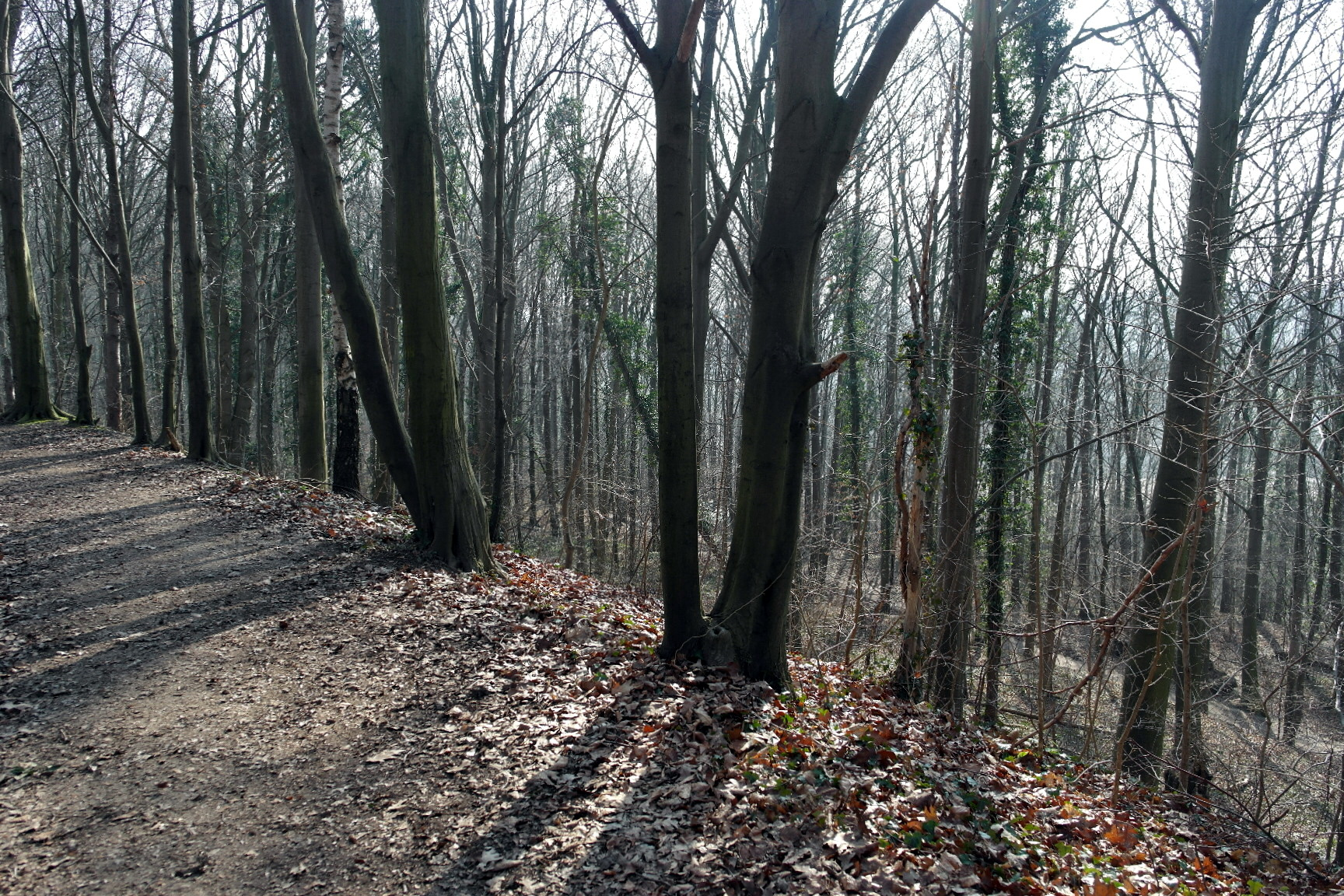 View of ENCI-bos, a relatively young forest on Mount St Peter in Maastricht, the Netherlands.